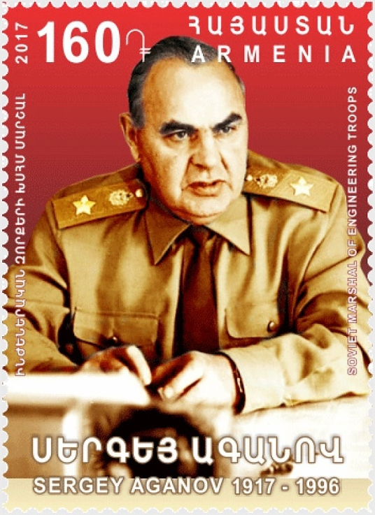 100th anniversary of the Soviet Marshal of engineering troops Sergey Aganov